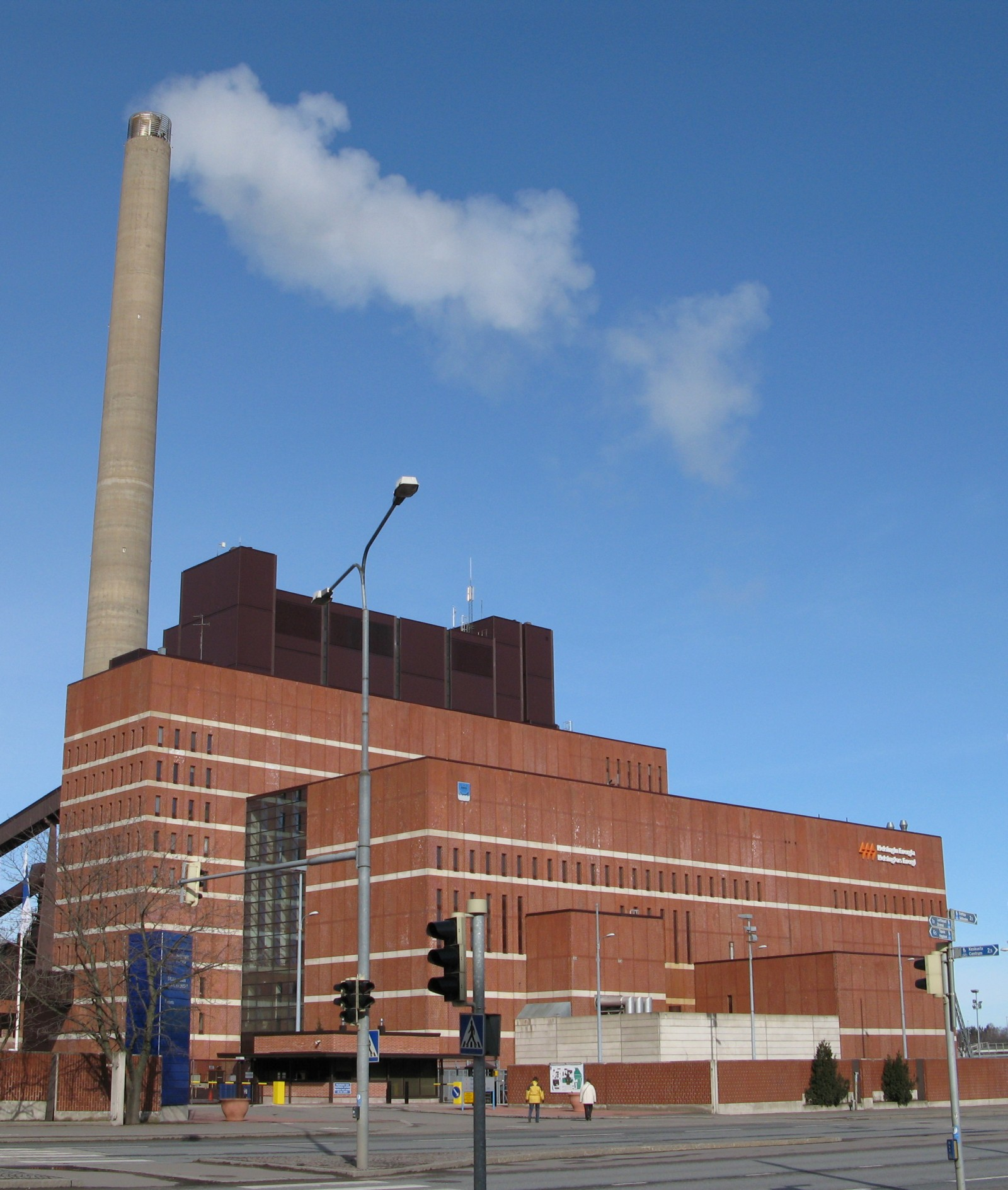 Salmisaari B powerplant in Helsinki, Finland. Built 1984. Architects: Timo Penttilä, Heikki Saarela and Kai Lind.